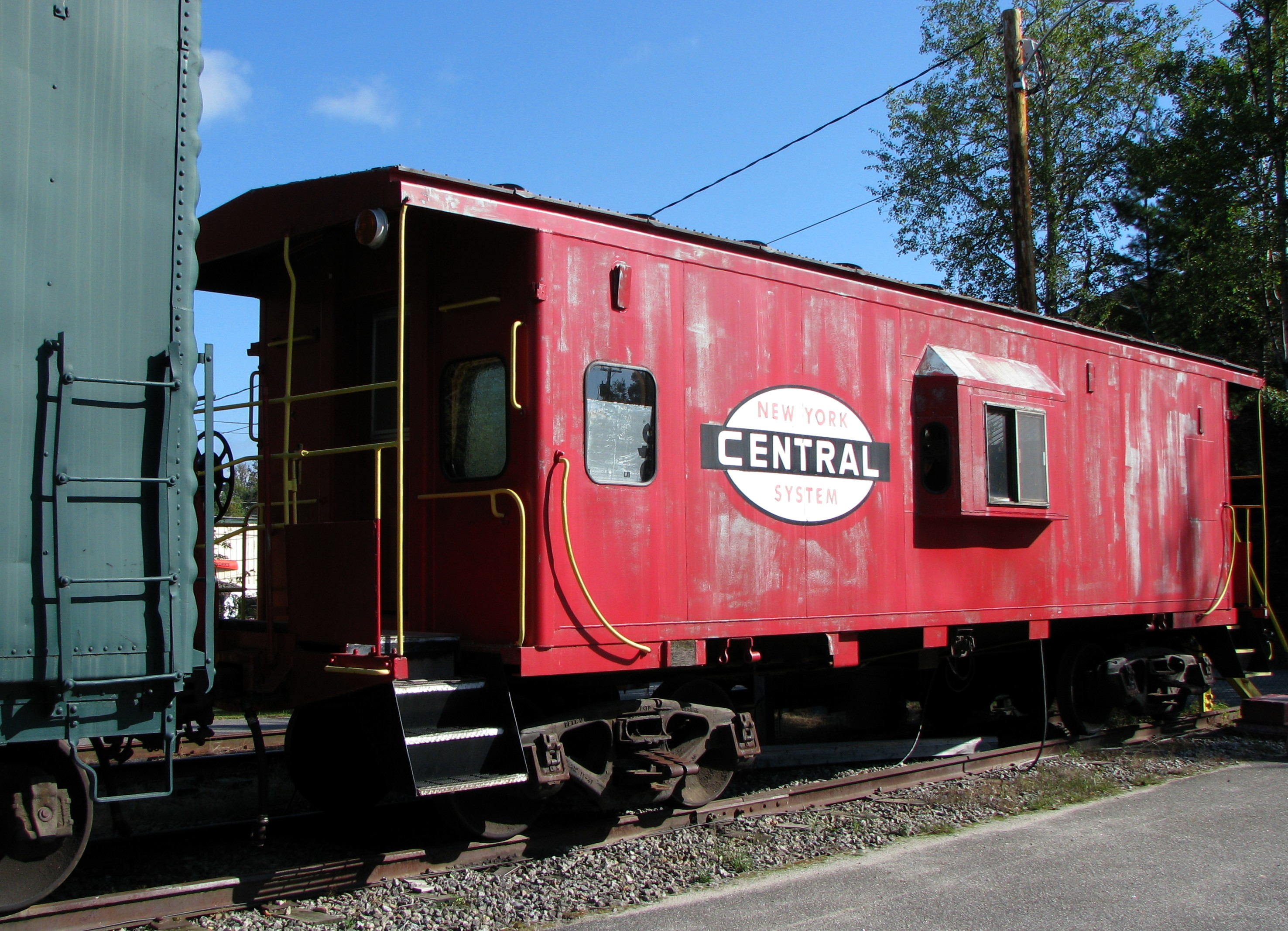 New York Central Caboose, Adirondack Scenic RR, Lake Placid